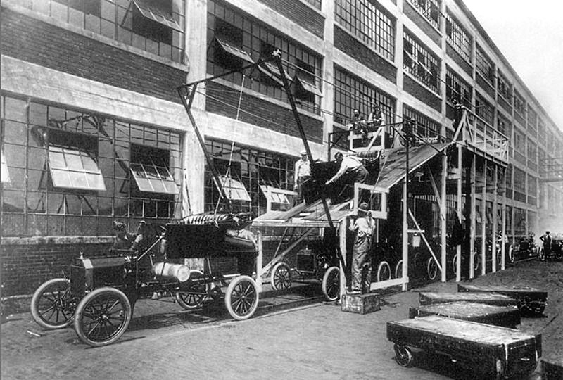 1913 photograph Ford company, USA